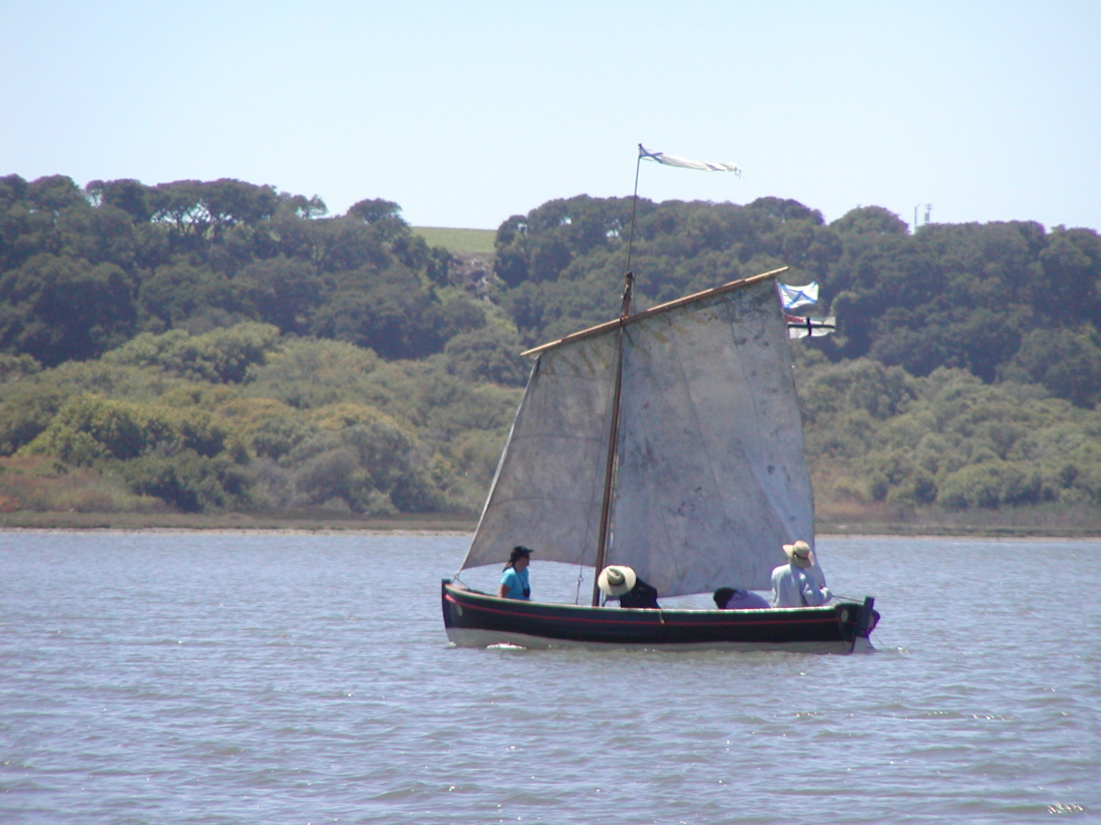 Four-oared yawl of Boat Base Monterey of The Naval Engineering Institute, St.Petersburg (Pushkin) Russia